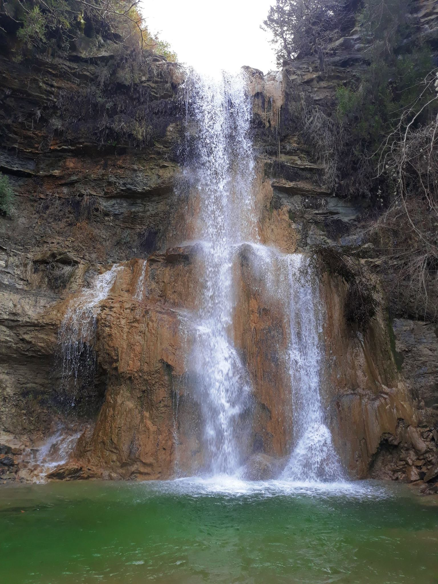 Ujvara e Kakunjës